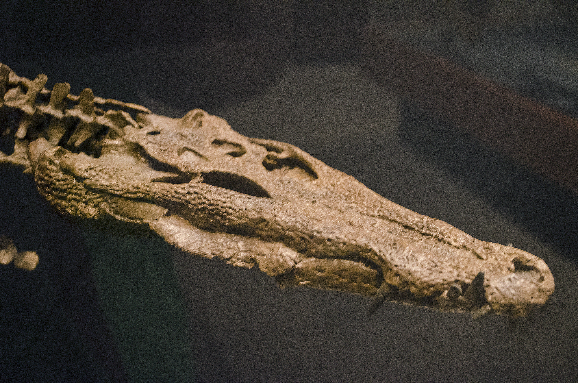 Borealosuchus skull on display at the Museum of the Rockies in Bozeman, Montana. This specimen was collected in McCone County, Montana. Borealosuchus was a crocodile that lived in North America from 86 to 38 million years ago. It was about 9 feet long, about mid-size for a croc at the time. It was incredibly numerous, and there are many species in the genus.